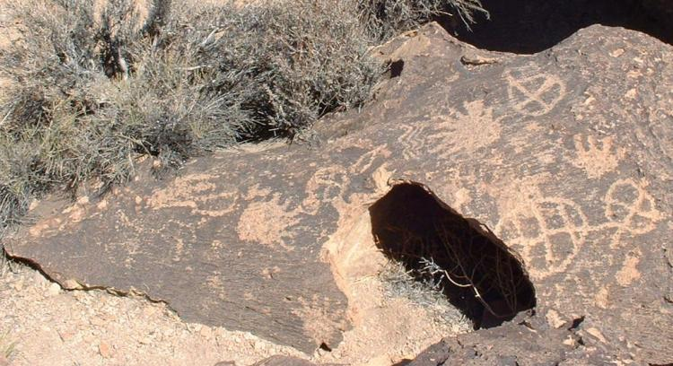 Petroglyphs on a Bishop Tuff tableland northeast of the Owens Valley, in Eastern California.